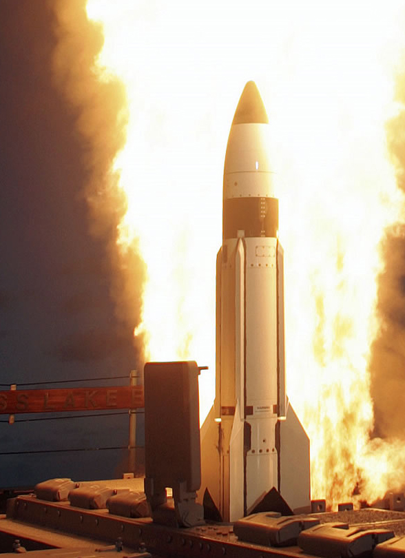 17 November 2005 a test involved for the first time a "separating" target, meaning that the target warhead separated from its booster rocket requiring the interceptor to distinguish between the body of the missile and the actual warhead. The interceptor missile was launched from the Pearl Harbor-based Aegis cruiser USS Lake Erie (CG 70). The target was intercepted more than 100 miles in space above the Pacific Ocean and 375 miles northwest of Kauai. FM-8 the fifth of a planned six flight test series within the missile defense Block 2004 time period, scheduled for the 1st quarter of FY2004 as of February 2002. By February 2004 this test was scheduled for the 2nd quarter of FY2005.